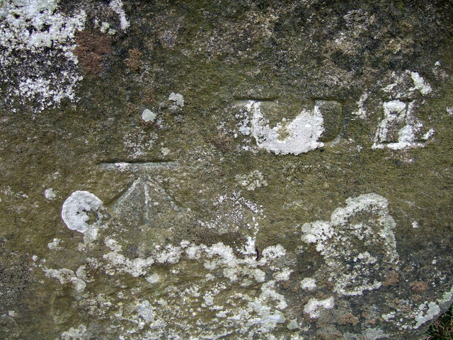 Benchmark on Bedd Morris The benchmark on the old boundary stone and ?older maenhir is accompanied by the initial T.D.LL. for Thomas Davies Lloyd, one of the Lords Marcher of the barony of Cemais, whose land this marks. The Beating of the Bounds still takes place in late summer. Higher up are engraved the words LLANYCHLLWYDOG BOUNDARY NEWPORT BOUNDARY